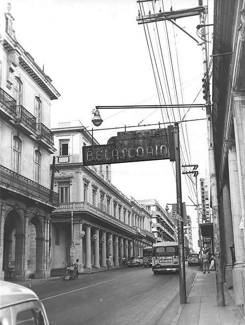 Calle Belascoain. Havana, Cuba